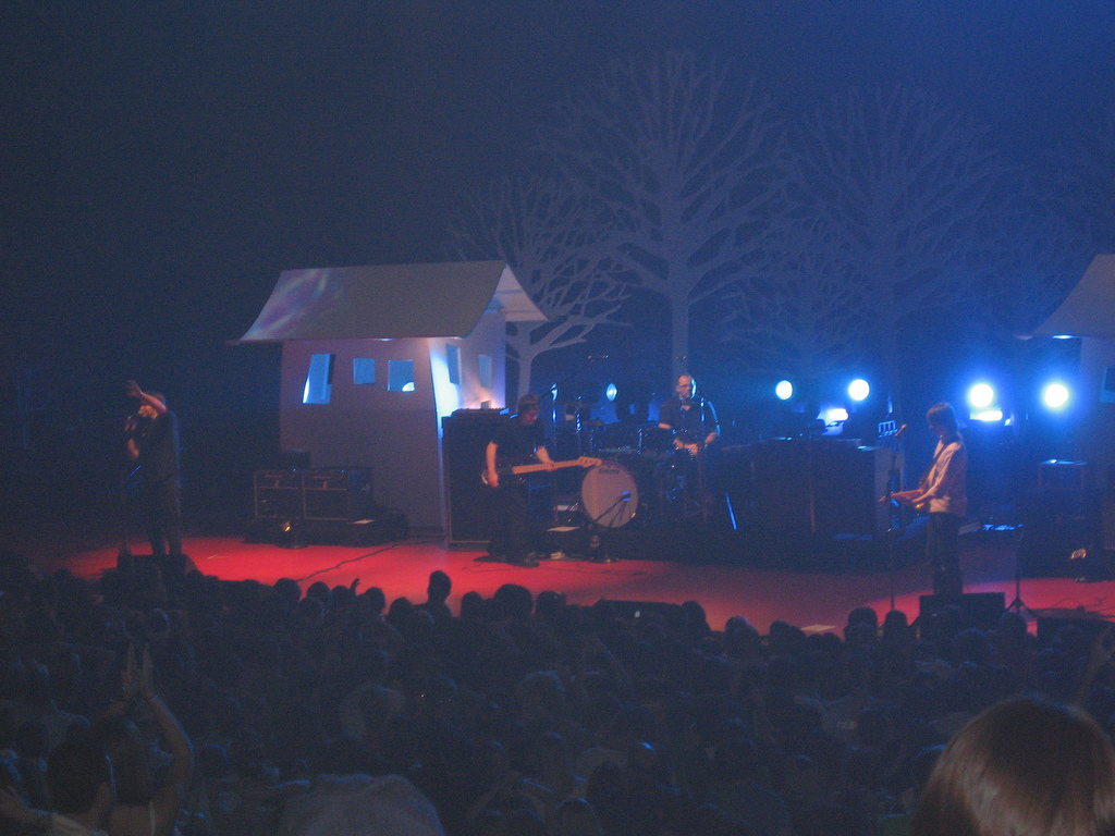 Death Cab for Cutie Nokia Theater, Dallas 3/31/06